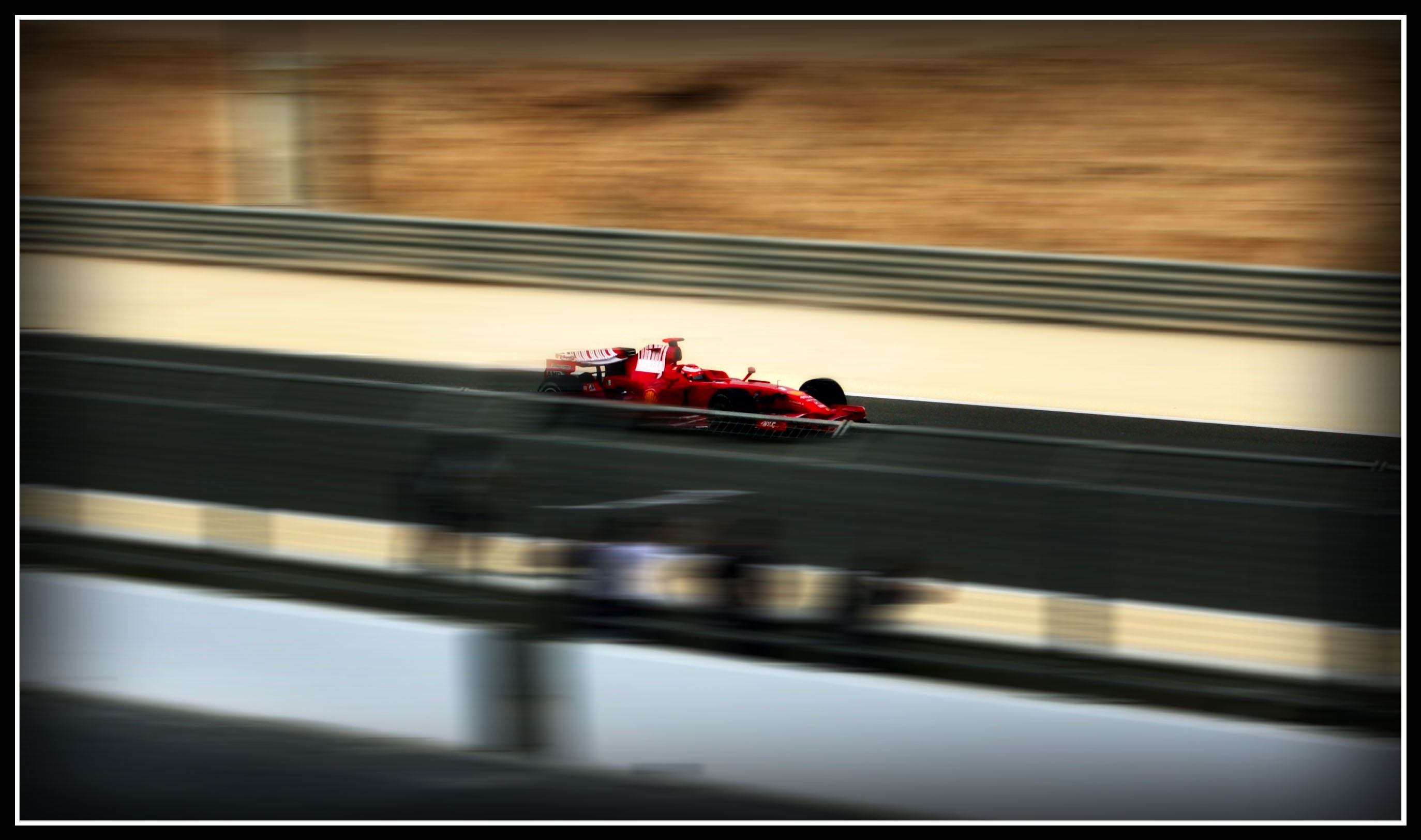 Kimi Raikkonen at the 2008 Bahrain Grand Prix.